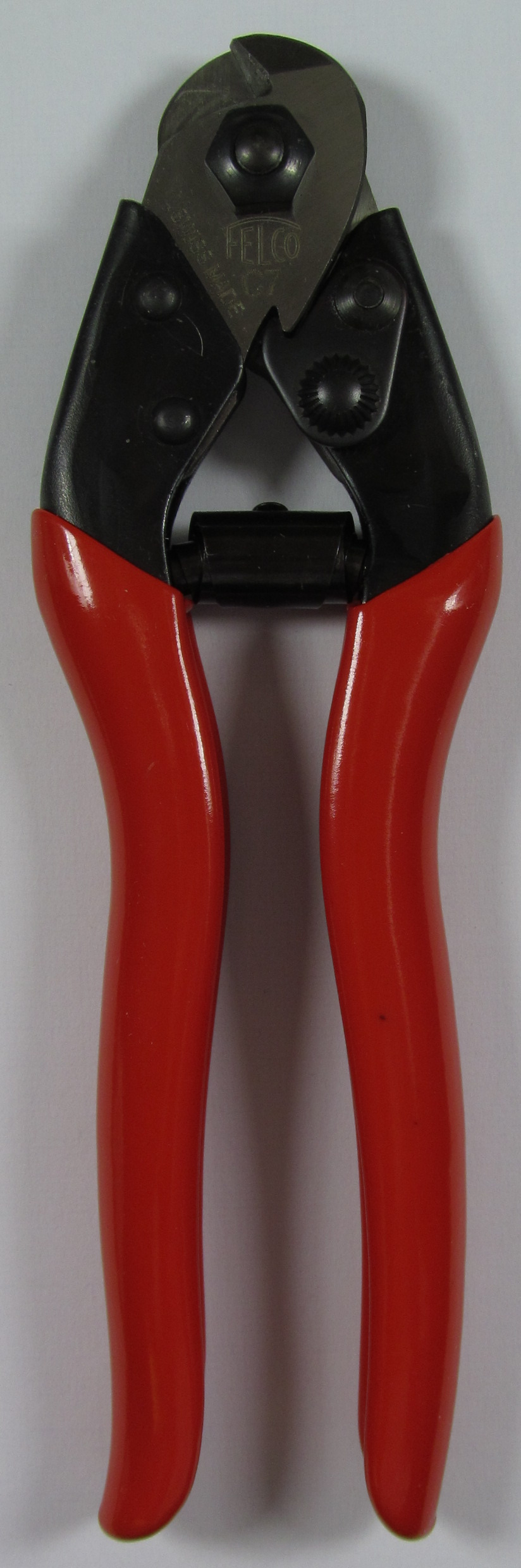 Wire cutter